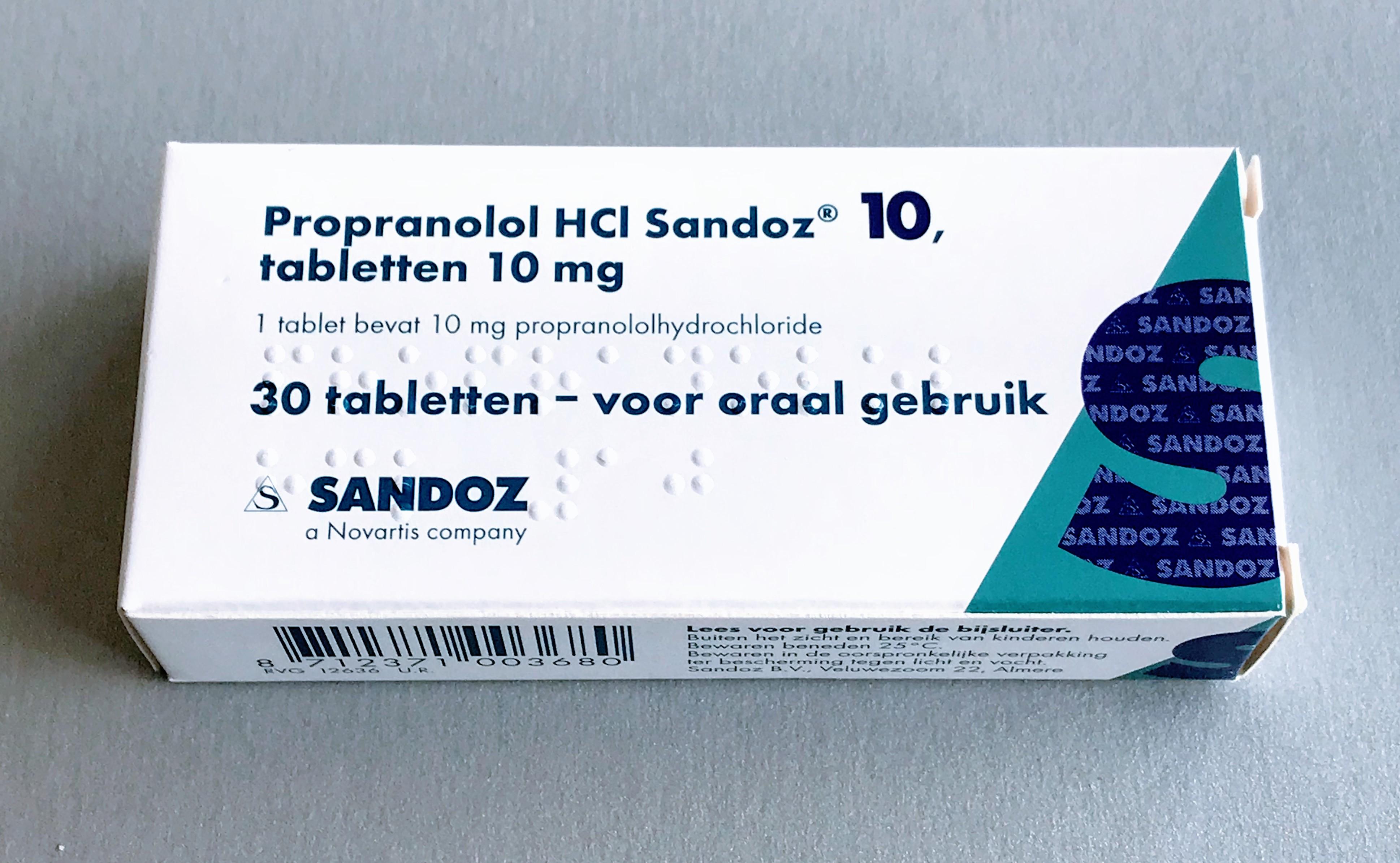 Propranolol hci sandoz 10mg